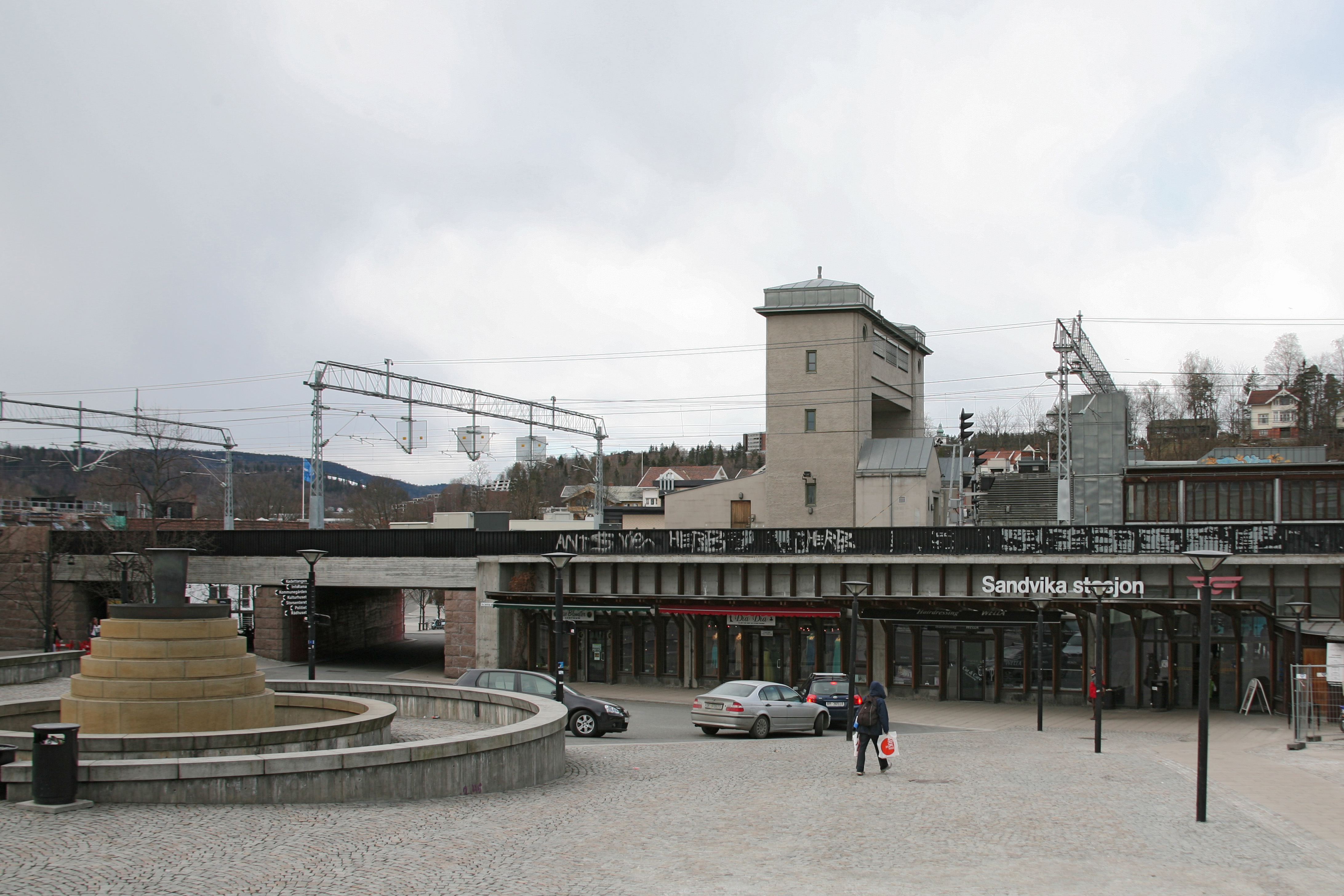 Picture of Sandvika Railway station (Norway)